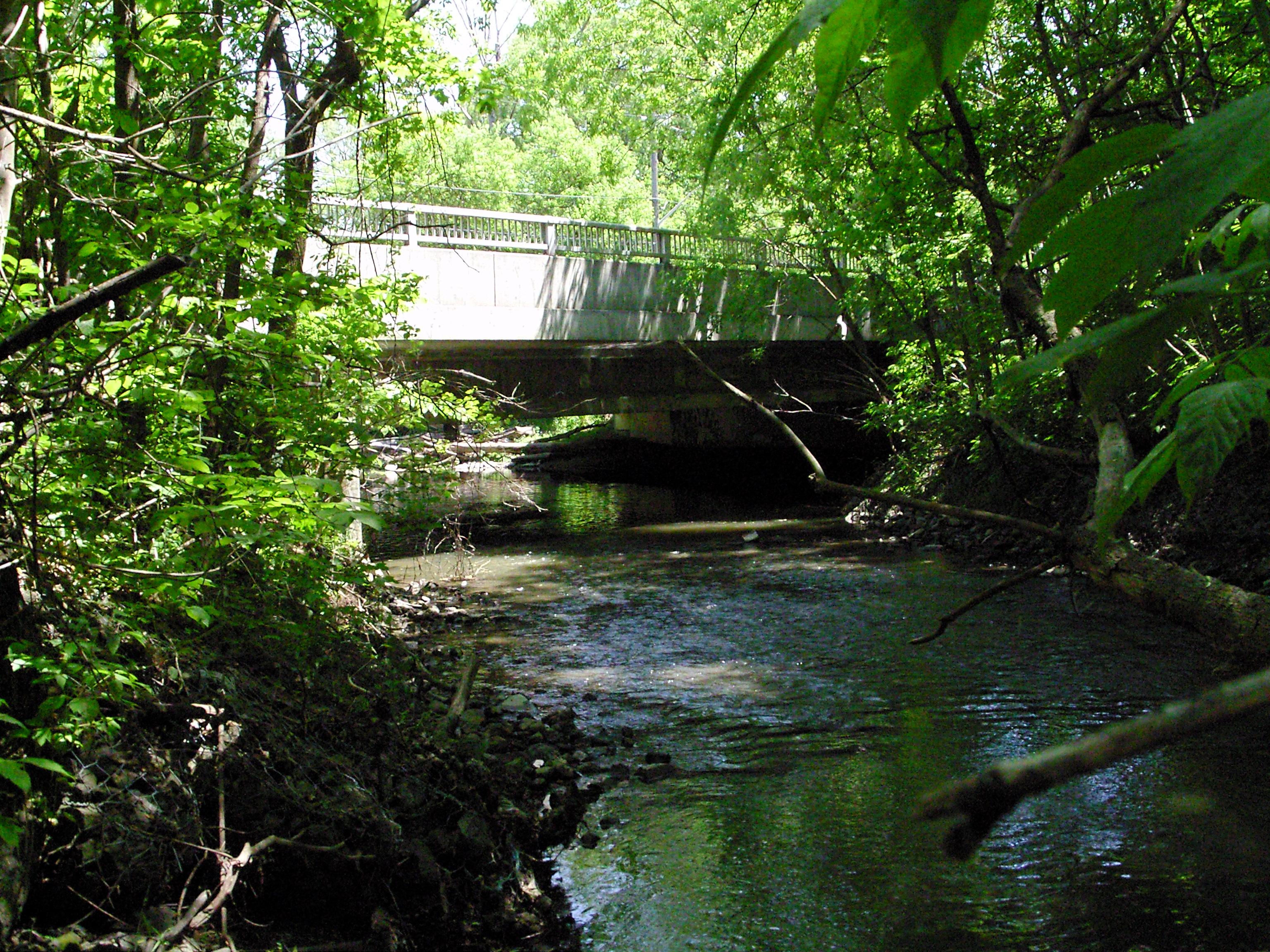 View of Bayview Avenue bridge over East Don, just south of Steeles Avenue, Toronto, Ontario, Canada.